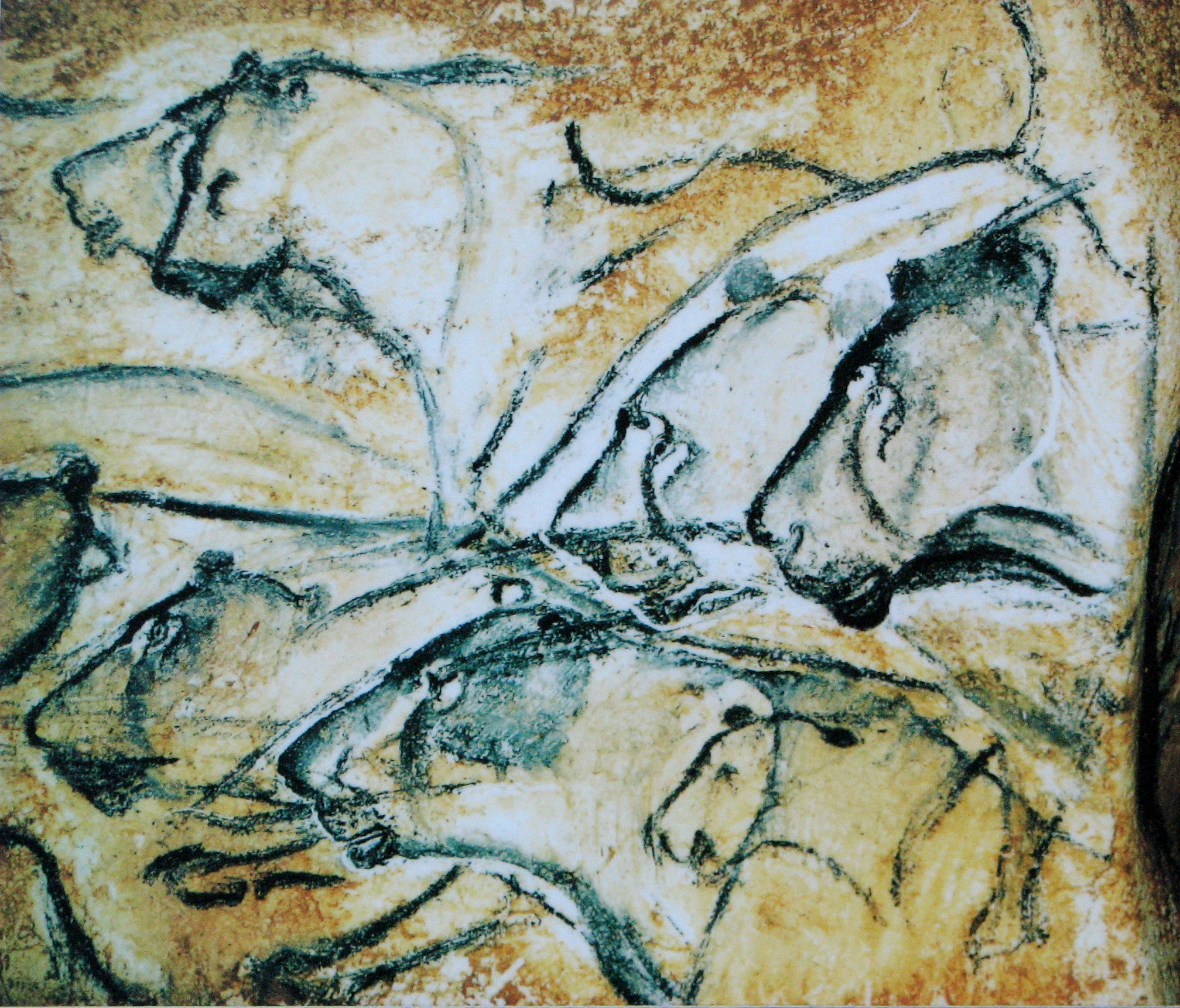 Lions painted in the Chauvet Cave (Ardèche, France). This is a replica of the painting from the Brno museum Anthropos (Czech Republic). The absence of the name sometimes leads to these paintings being described as portraits of lionesses.